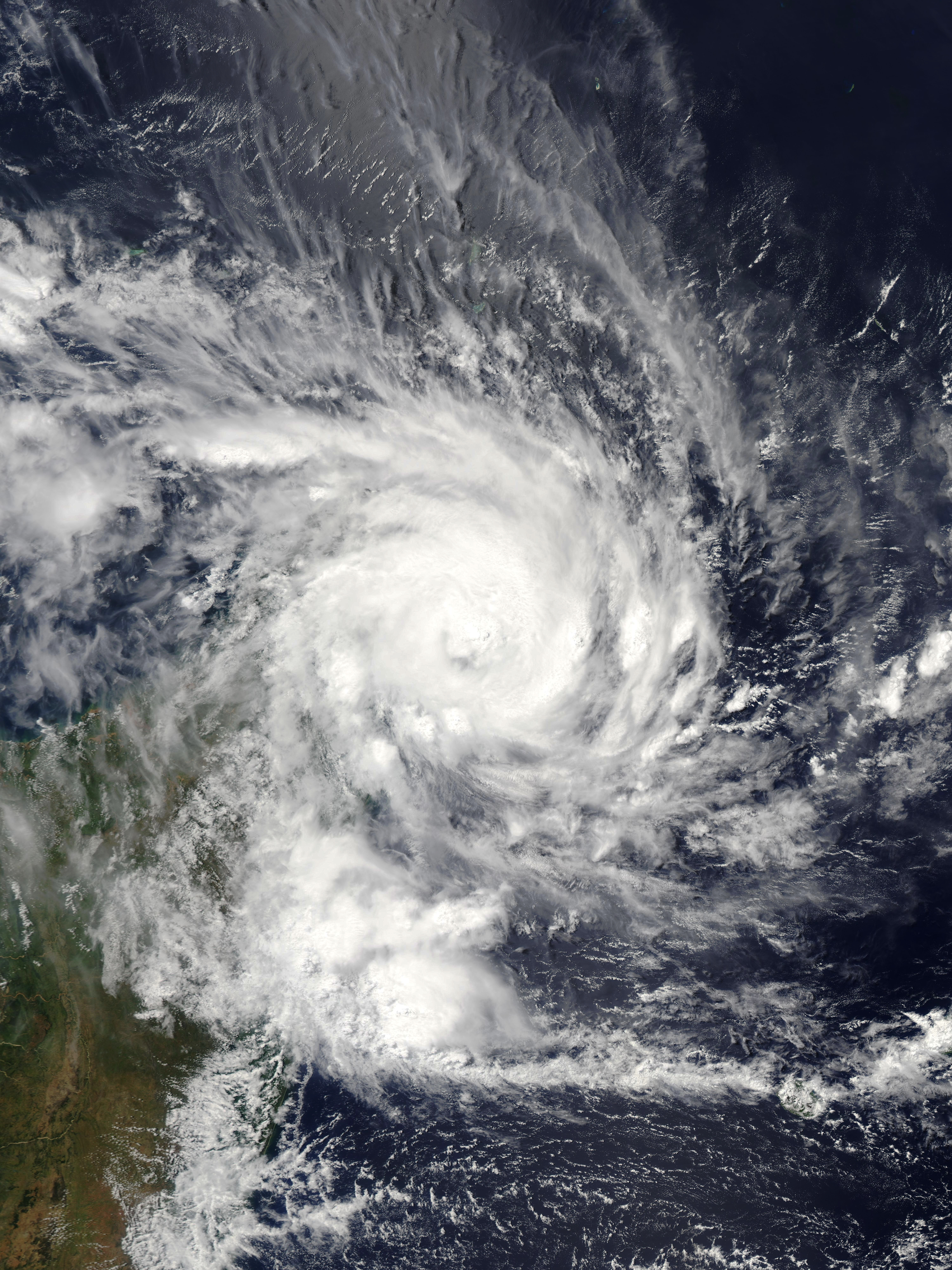 Moderate Tropical Storm Herold on March 14, 2020.